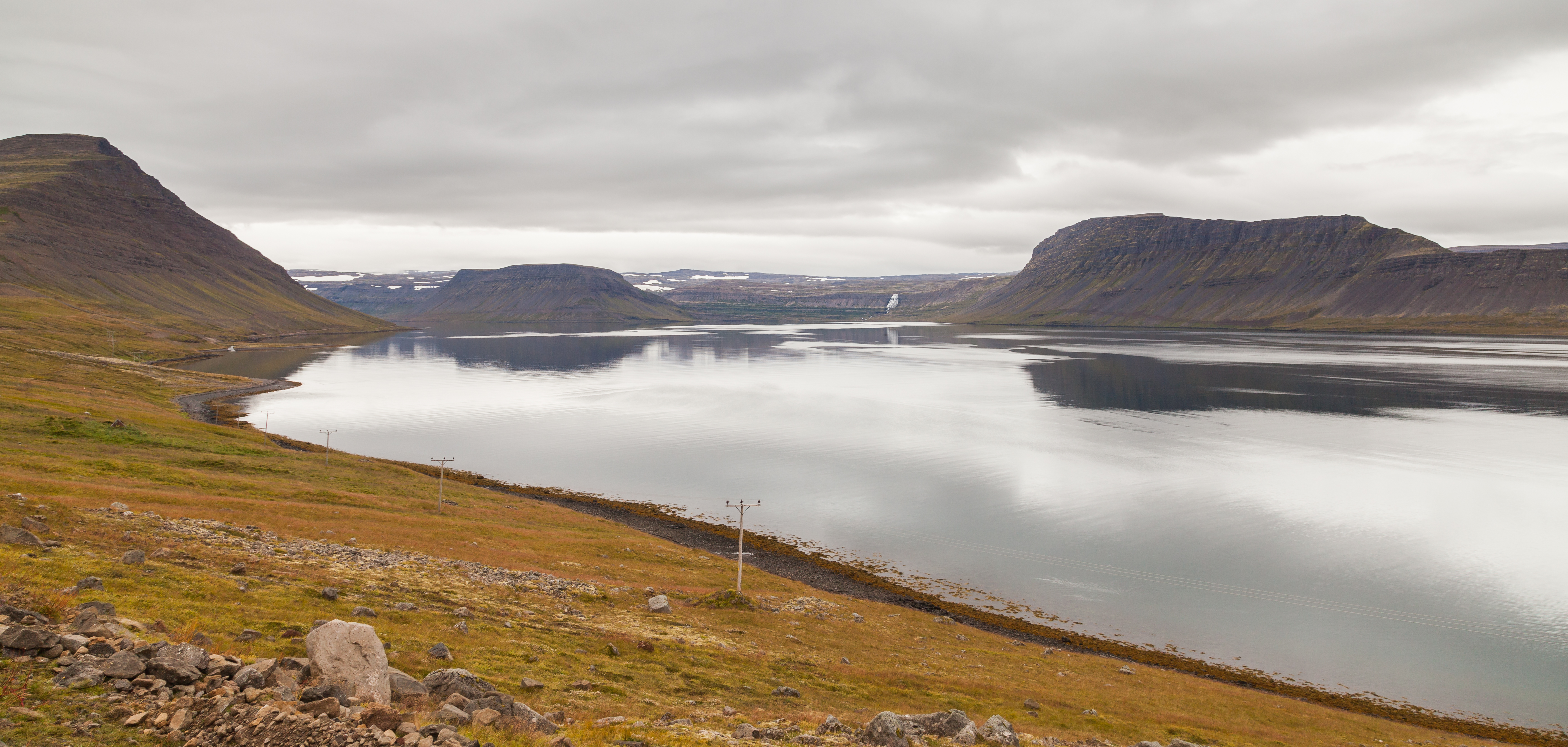 Arnarfjörður, Vestfirðir, Iceland.